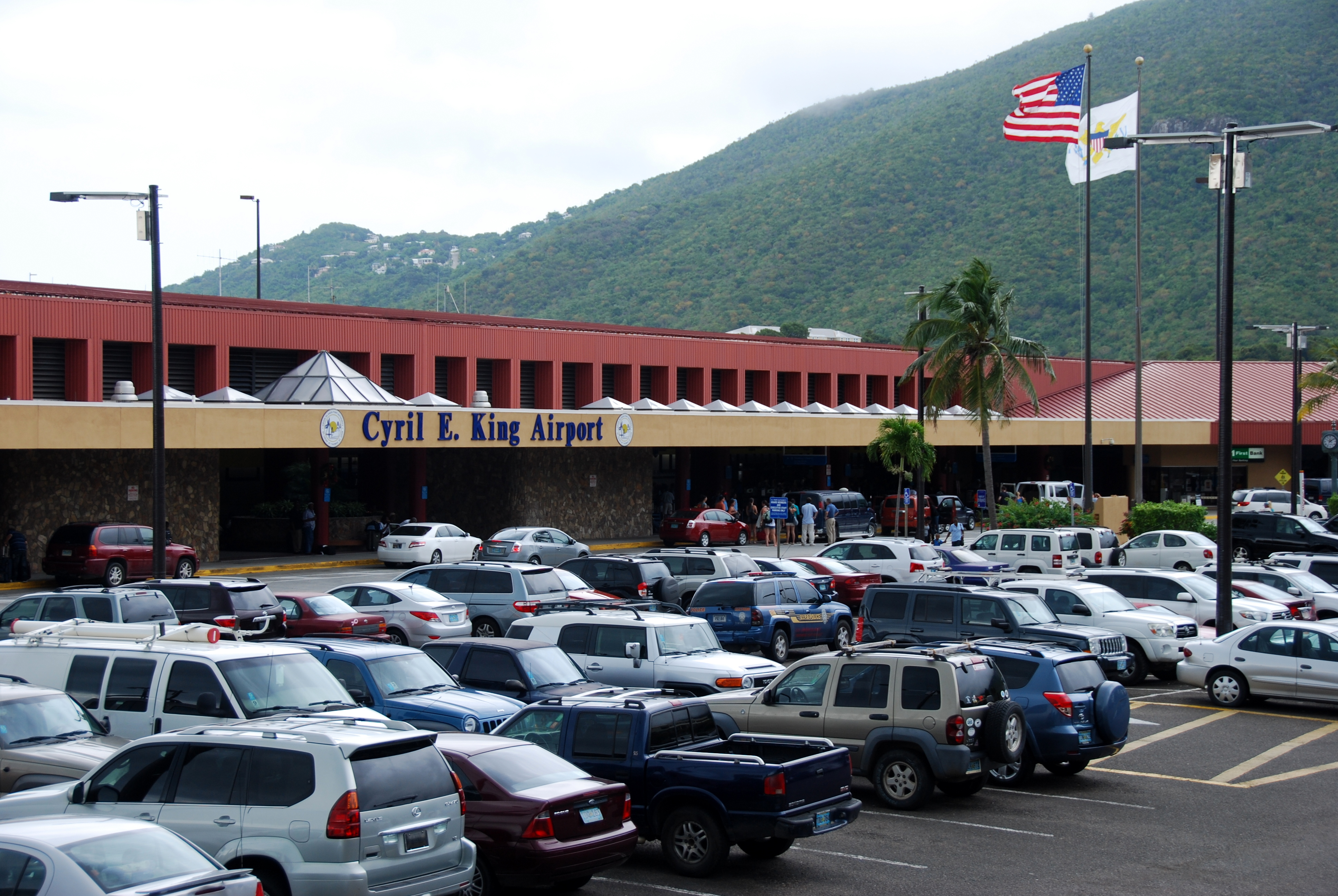 Cyril E. King Airport terminal